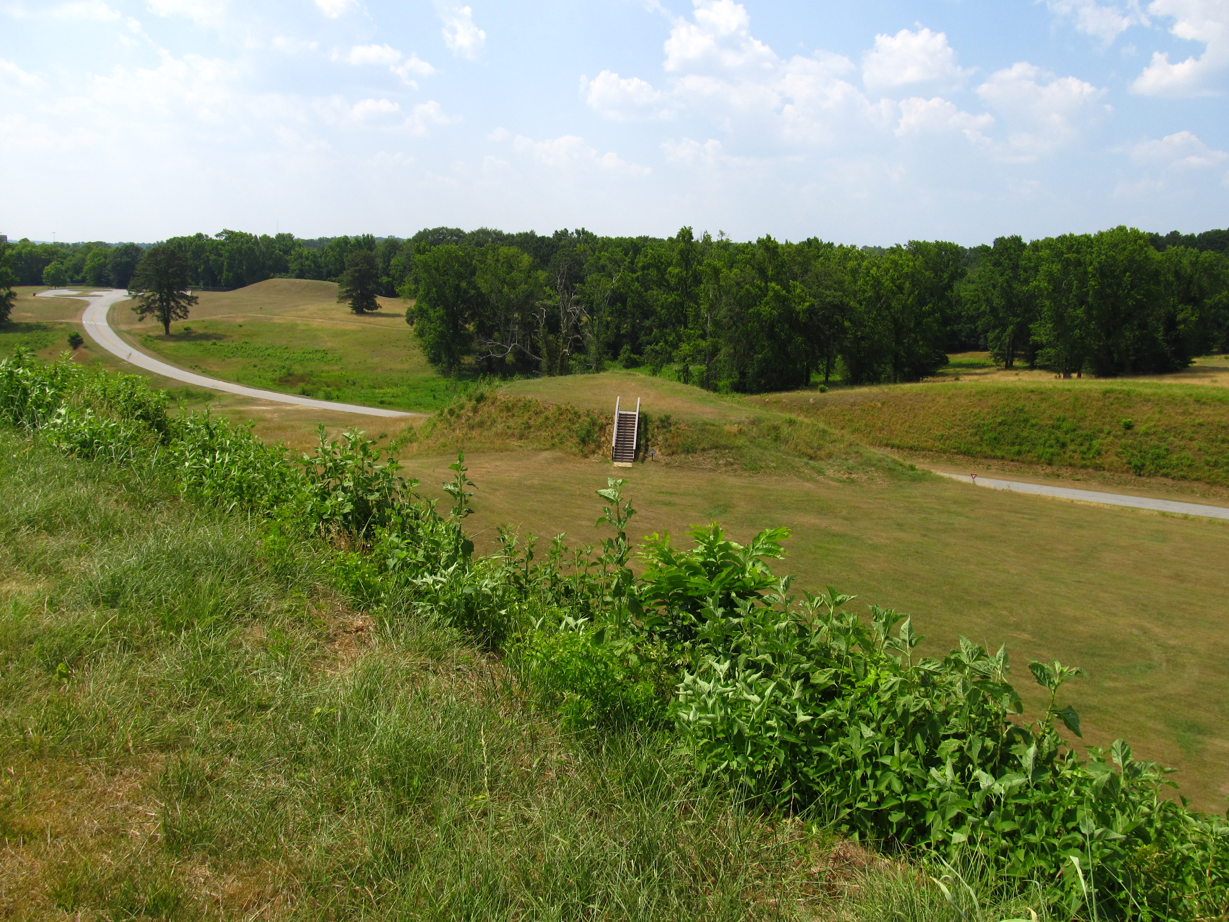 Ocmulgee National Monument preserves traces of over ten millennia of Southeastern Native American culture, including major earthworks built more than 1,000 years ago by the South Appalachian Mississippian culture (a regional variation of the Mississippian culture.) These include the Great Temple and other ceremonial mounds, a burial mound, and defensive trenches. They represented highly skilled engineering techniques and soil knowledge, and the organization of many laborers. The site has evidence of "17,000 years of continuous human habitation." The 702-acre (2.84 km2) park is located on the east bank of the Ocmulgee River. Present-day Macon, Georgia developed around the site after the United States built Fort Benjamin Hawkins nearby in 1806. Varying cultures of prehistoric indigenous peoples settled on what is called the Macon Plateau at the Fall Line, where the rolling hills of the Piedmont met the Atlantic Coastal Plain. The monument designation includes the Lamar Mounds and Village Site, located downriver about three miles (5 km) from Macon. The monument park was designated for federal protection by the National Park Service (NPS) in 1934.